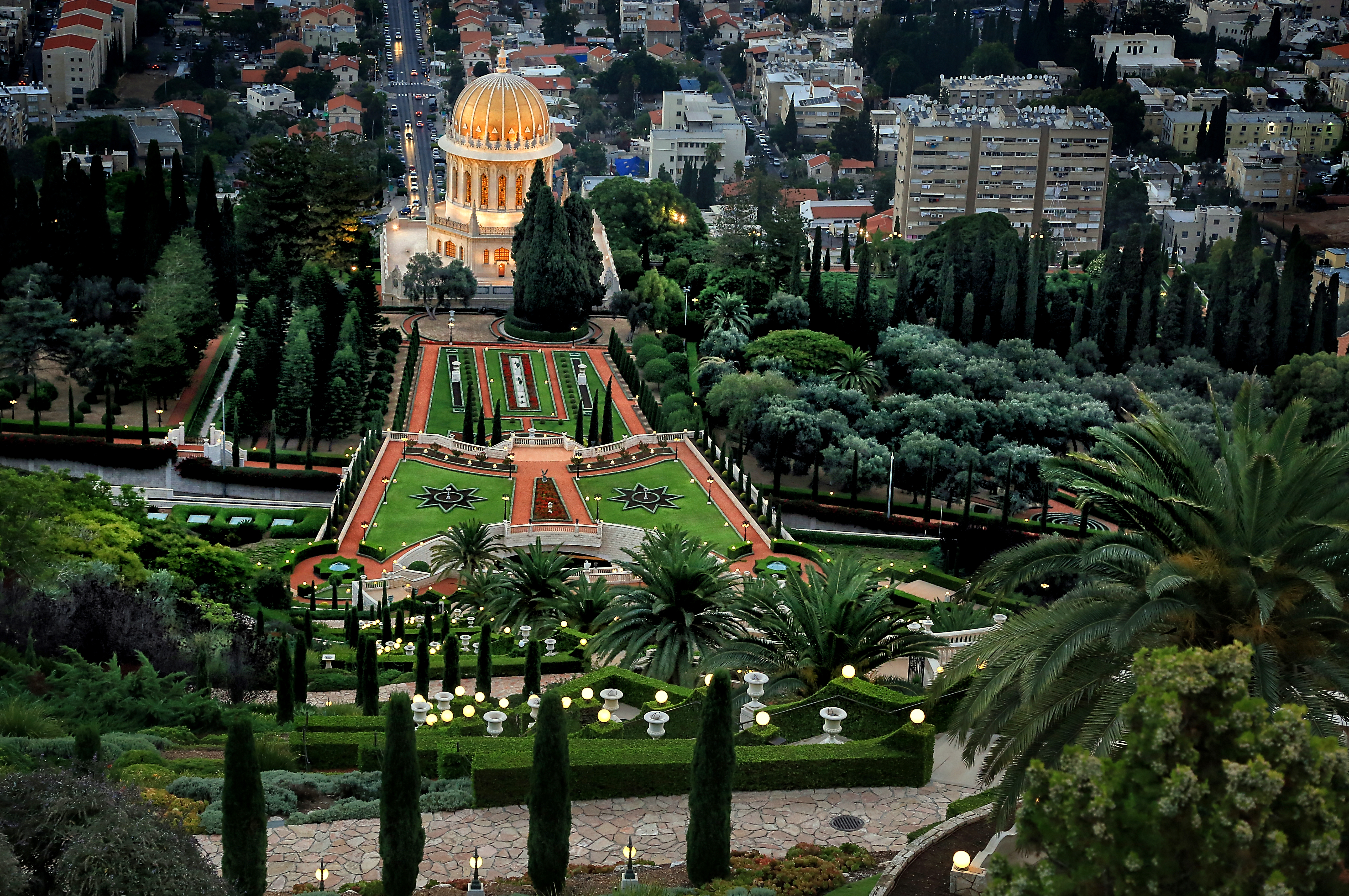 the Bahai Temple in Haifa Israel